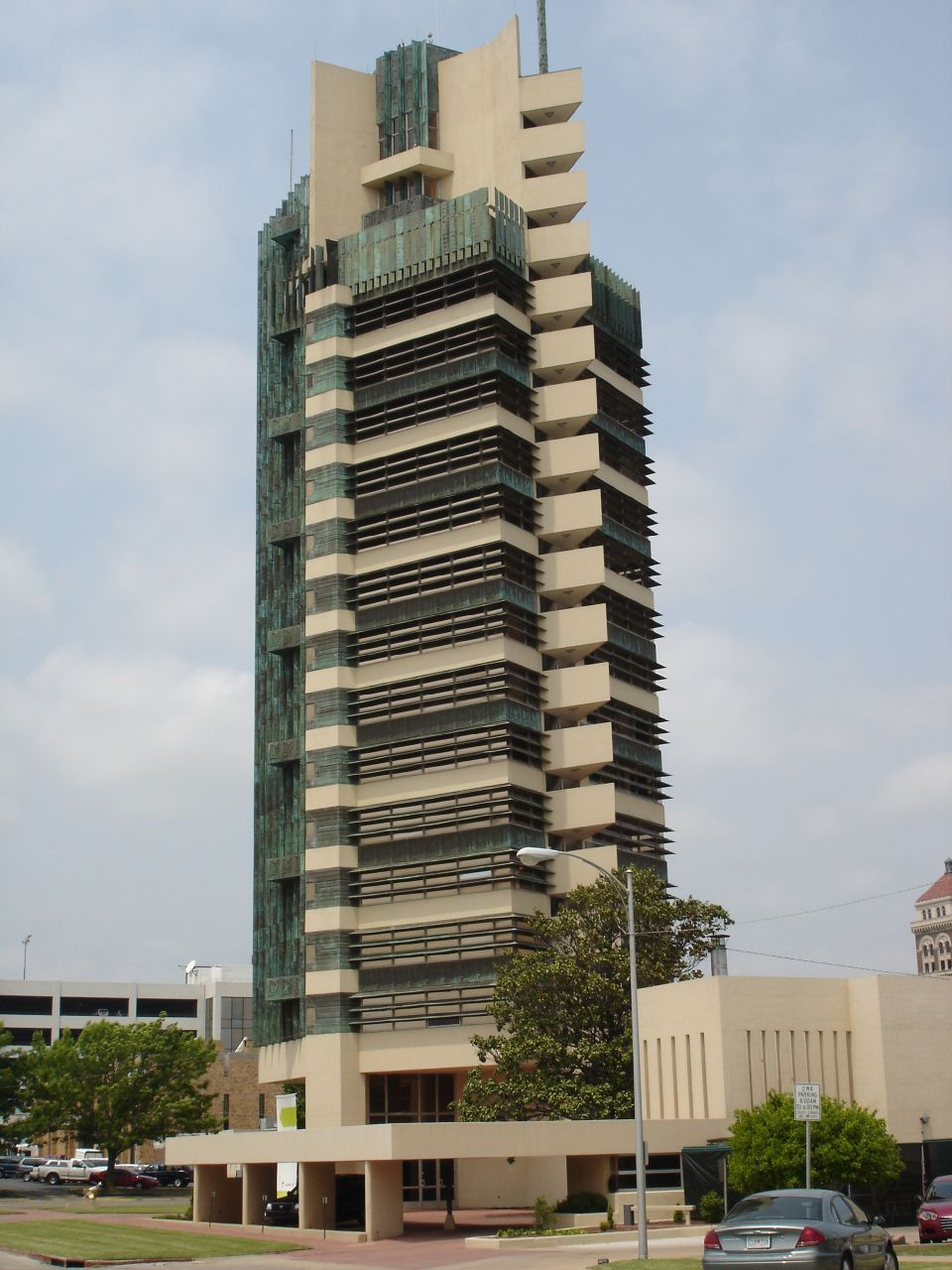 Bartlesville Oklahoma's Price Tower